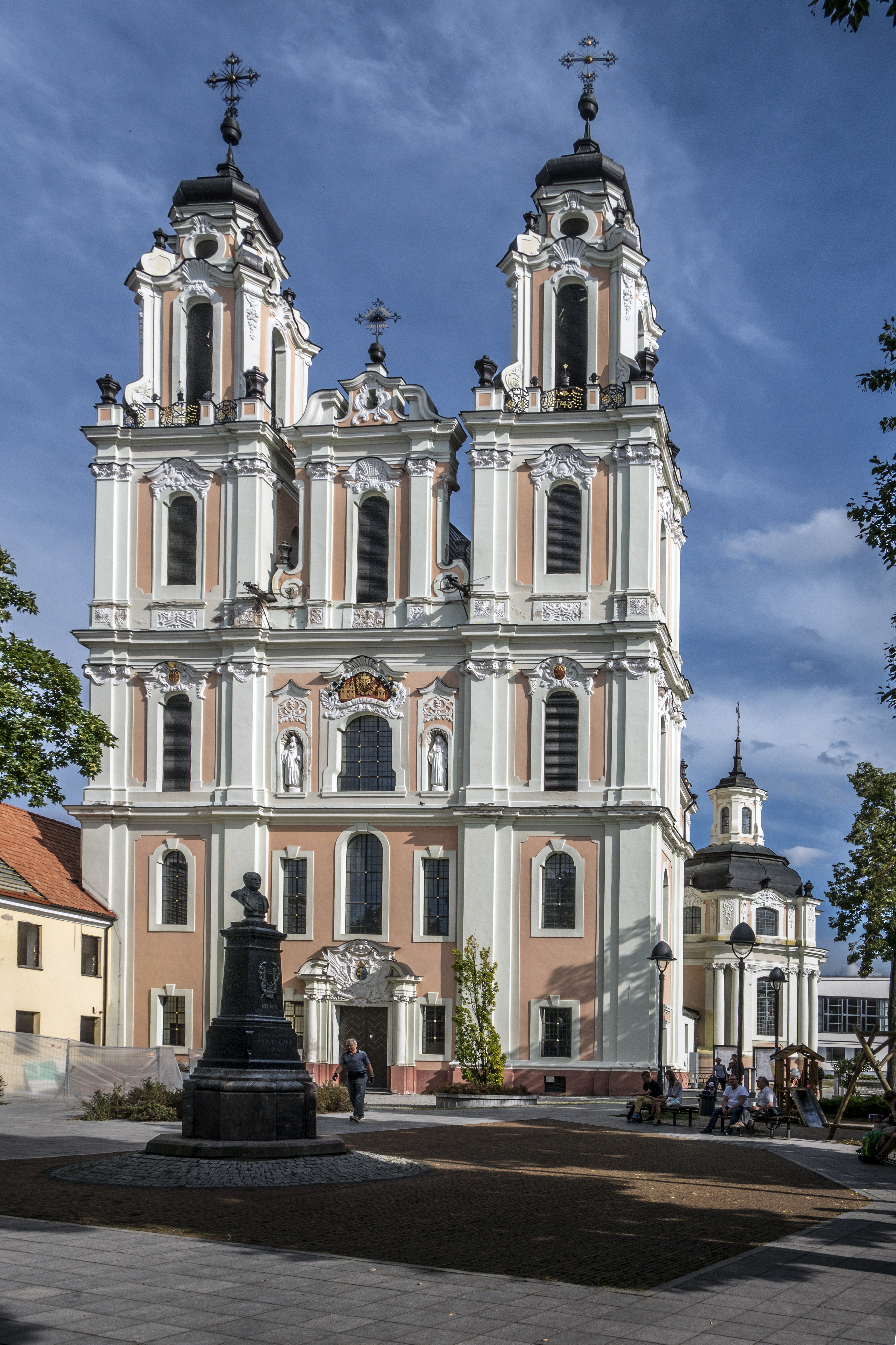 Church of St. Catherine in Vilnius